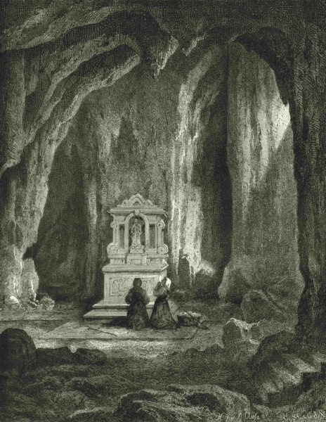 The Cave of Saint Servul near Trieste (inscription).